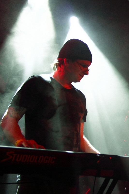 Maciej Niedzielski of Artrosis, Katowice, Mega Club, 6.05.2011